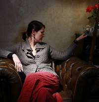 Depicted person: Maja Hill – Macedonian artist